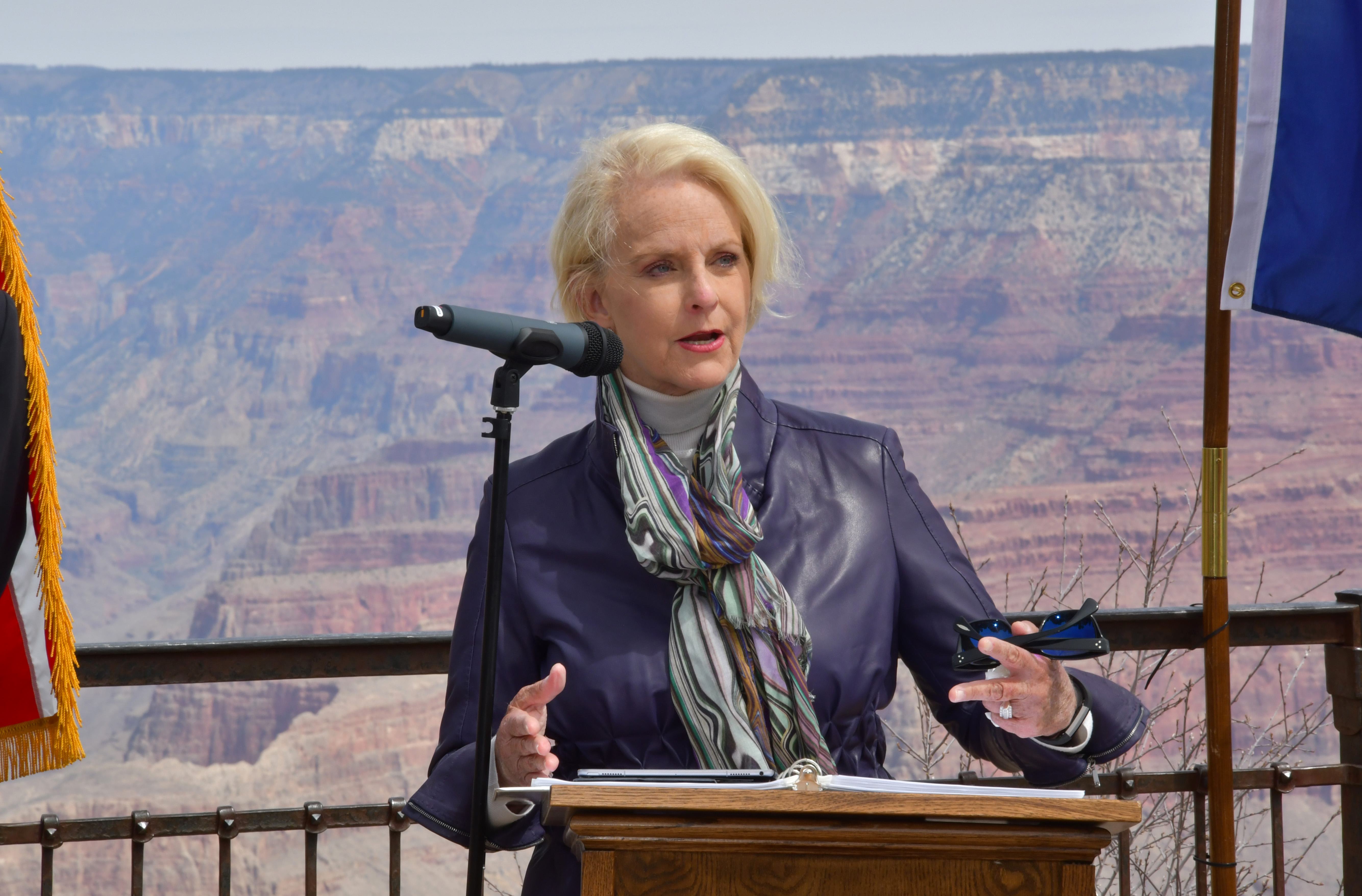 Representing the McCain Family, Cindy McCain relates stories of her husband, John McCain (whose health did not permit him to attend), and Representative Morris Udall, and their work to help preserve and protect Grand Canyon, and provide the public the opportunities to experience it. This took place a special reception honoring the example of collaboration and bi-partisan friendship set by the late Representative Morris K. Udall and Senator John S. McCain, several new initiatives were announced that will enhance visitors' understanding of the Grand Canyon landscape and emphasize the importance of cooperative efforts in conservation: The celebration included the unveiling of a rendering of a tribute plaque that will be installed at Grand Canyon National Park to honor Representative Udall's and Senator McCain's legacies, shared love of the park, and their efforts to advance the conservation purposes for which it was established.